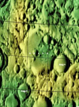 Colour-coded LAC 36 image from the USGS Digital Atlas.